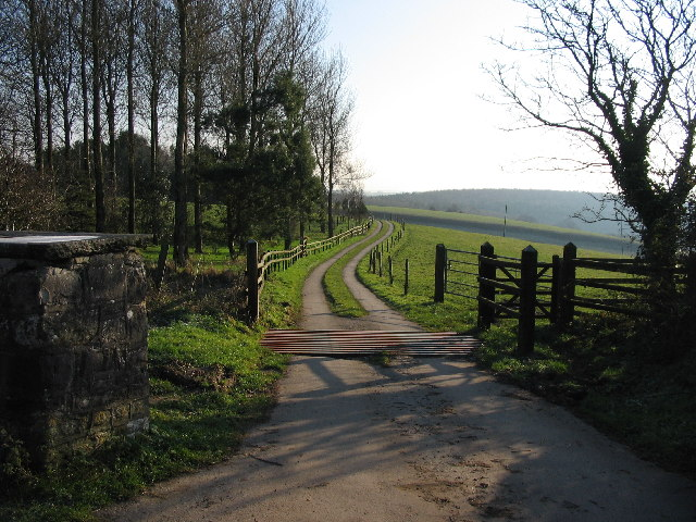 Entrance to the Coed Hills farm - Vale of Glamorgan, neighboring Coed Hills Rural Artspace.